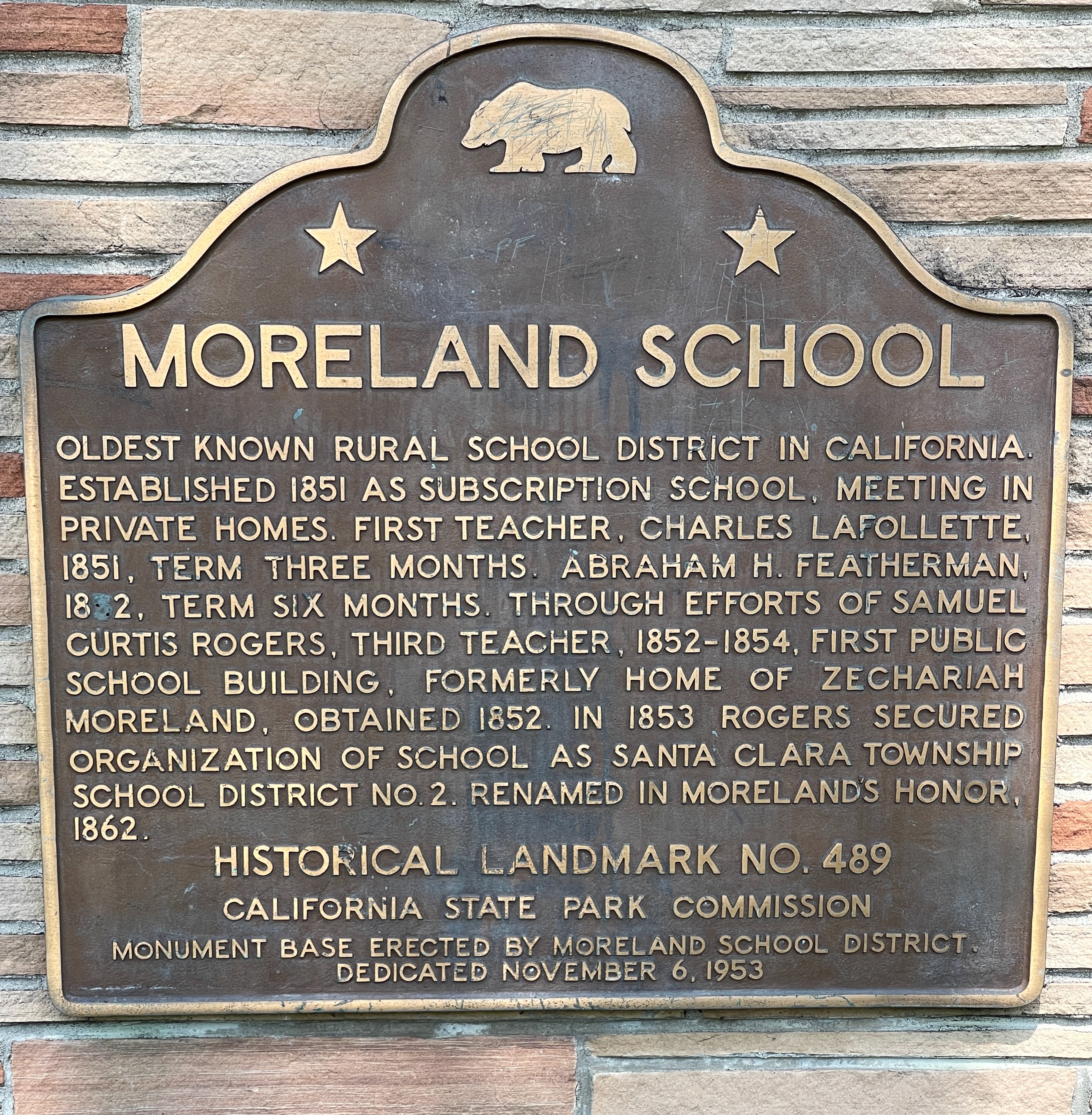 A sign commemorating the Moreland School District, 1851